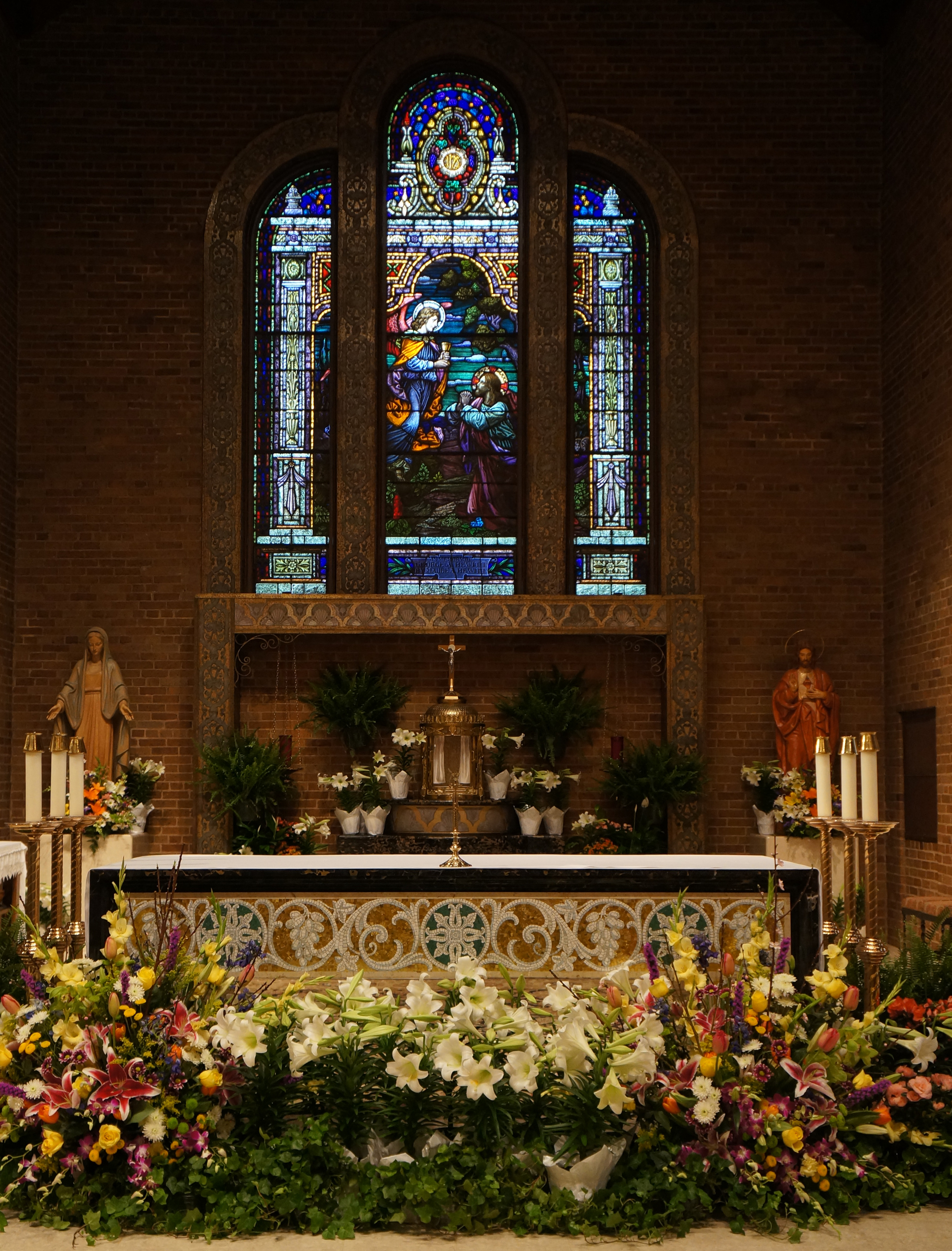 View of the main altar at the Cathedral of the Immaculate Conception in Tyler, Texas.